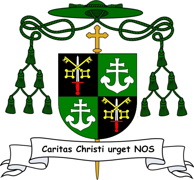 Coat of arms of Karel Skoupý, bishop of Brno, Czech Republic (1946-1972)